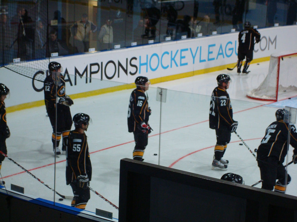 Champions Hockey League game: Oulun Kärpät - Eisbären Berlin Berlin (in Oulun Arena)